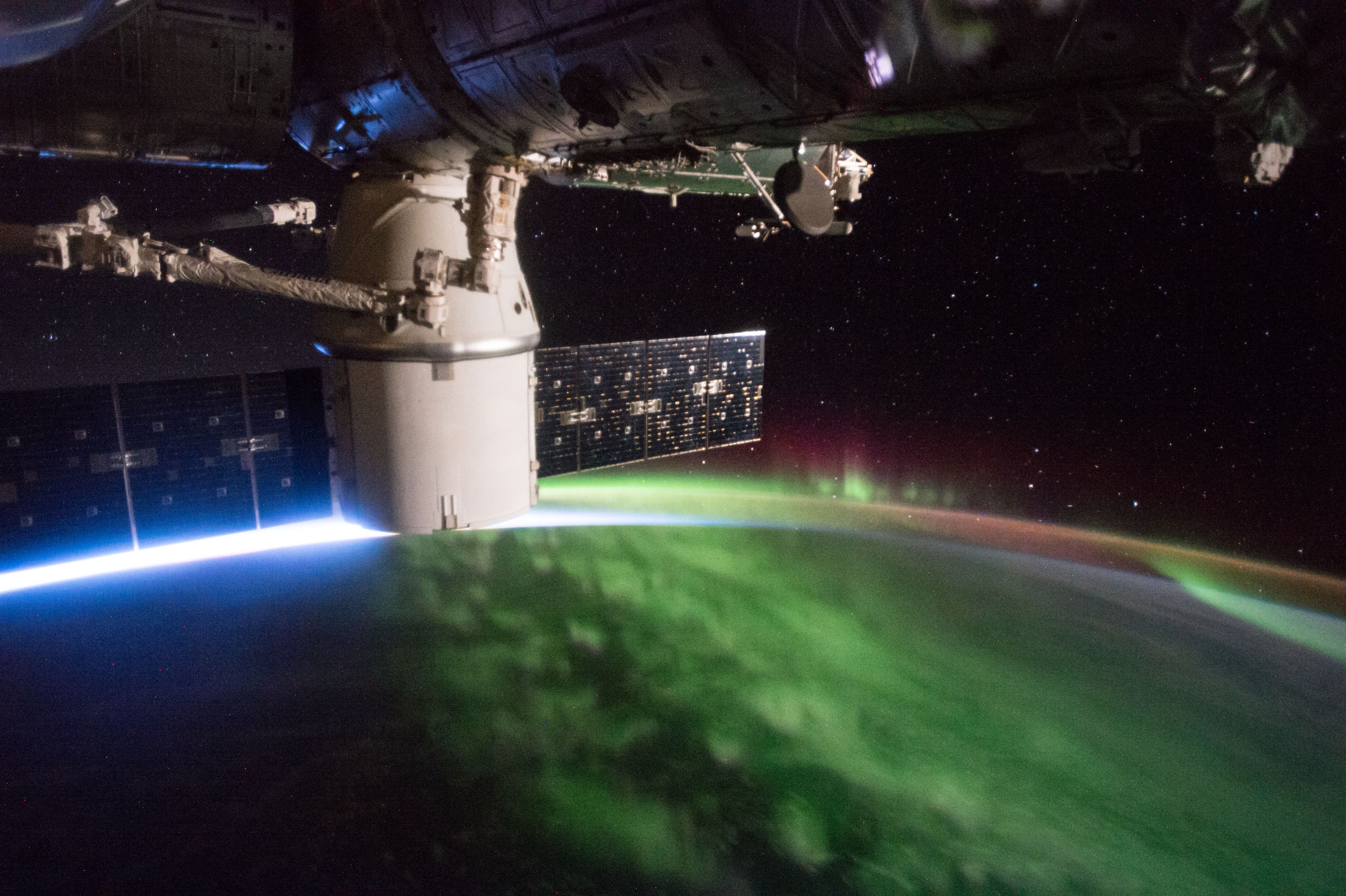 Sparkling aurora colors of magenta and green color the sky's while the International Space Station orbits above the planet every 90 minutes. SpaceX's Dragon resupply vehicle is seen docked to the Earth-facing port of the Harmony module.